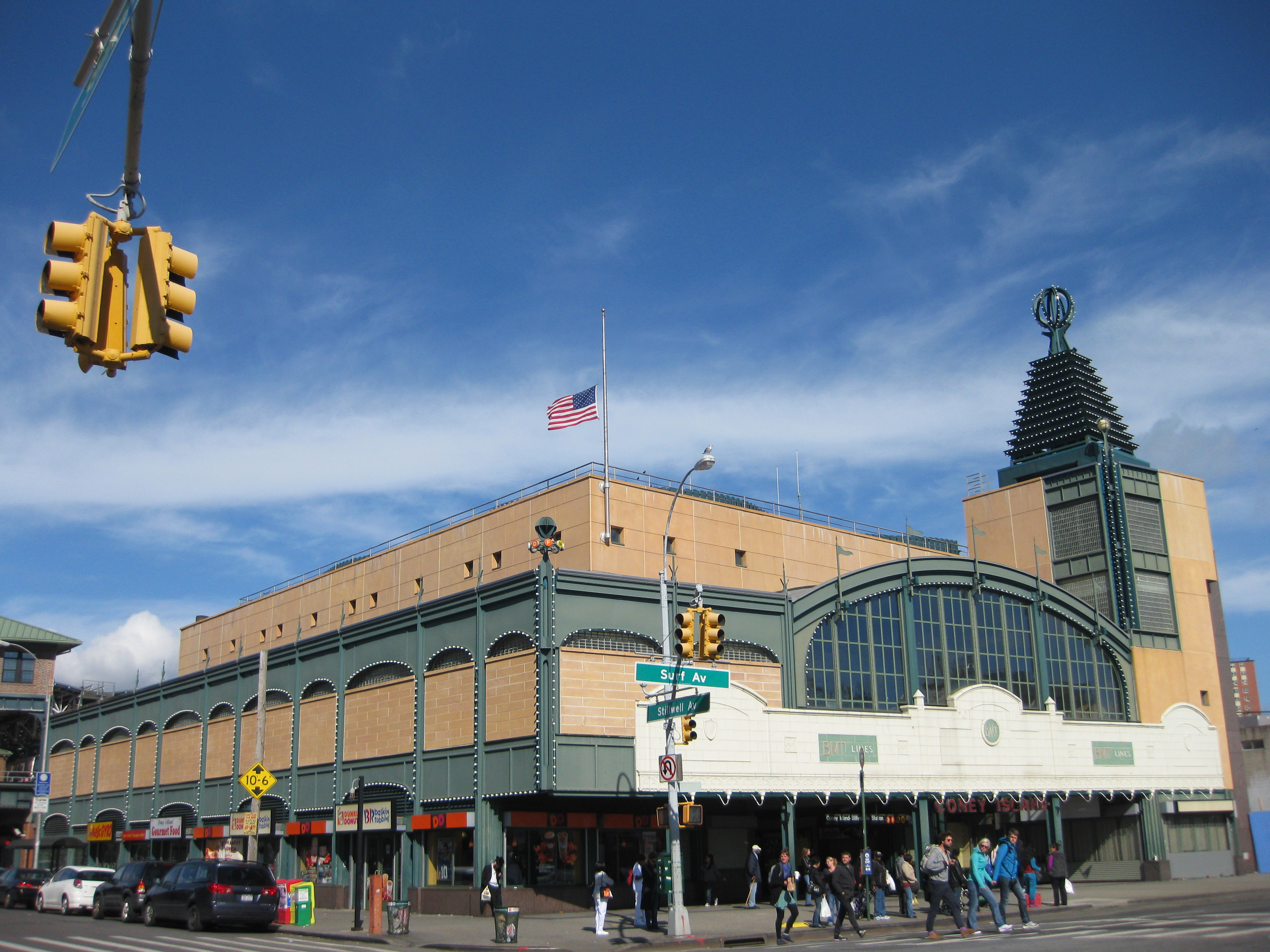 Coney Island, New York